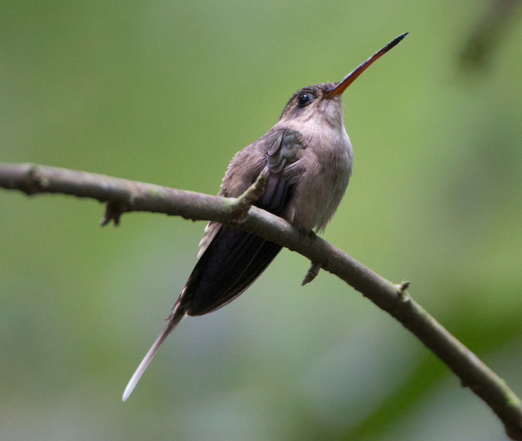 A Straight-billed Hermit near Sacha Lodge, Napo River, Ecuador